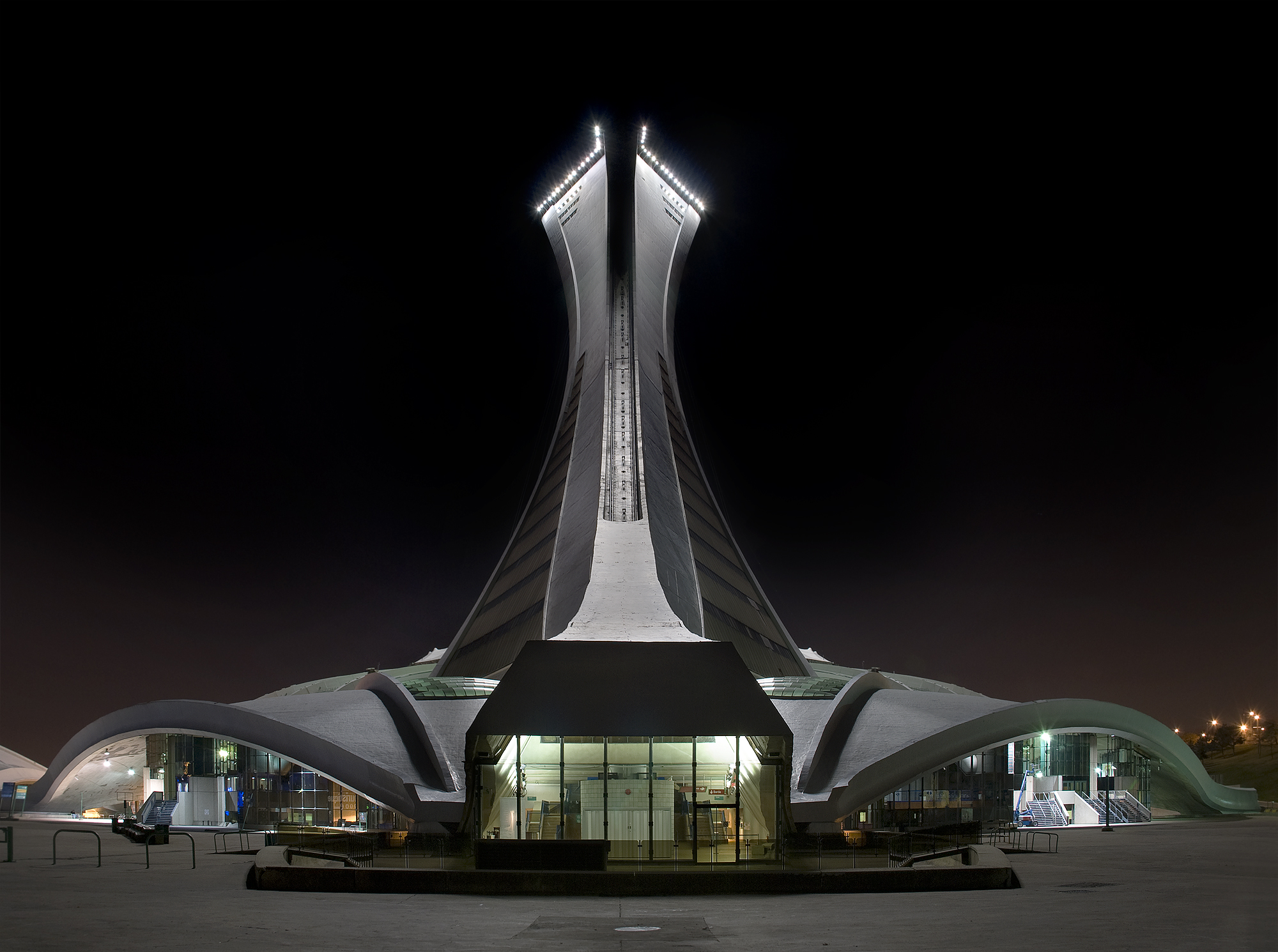 Made of 4 different exposition settings (0.5, 5, 10, 15) Olympic Stadium of Montreal from back